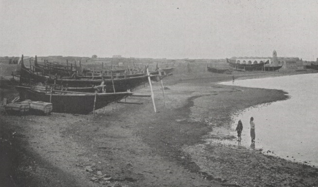 Picture of Doha by Hermann Burchardt. Obtained from Volume II of the Gazetteer of the Persian Gulf , ’Omān and Central Arabia (Government of India: 1908) compiled by John Gordon Lorimer